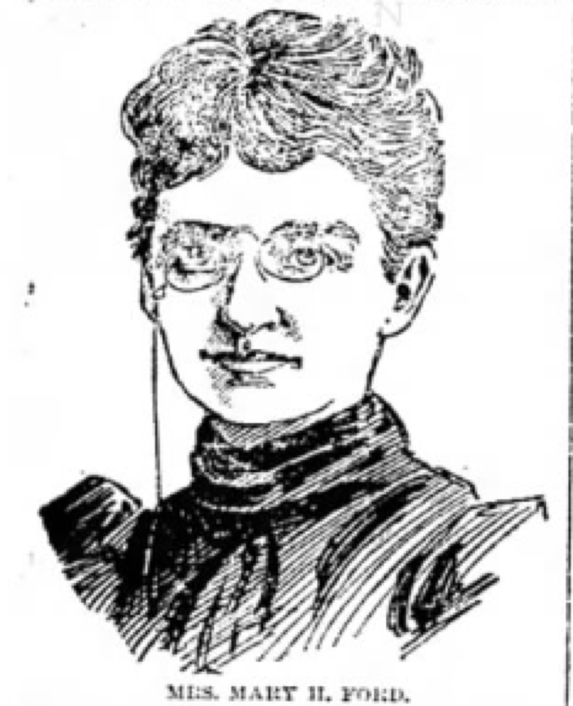 Mary Hanford Ford, circa 1898, 42 years old